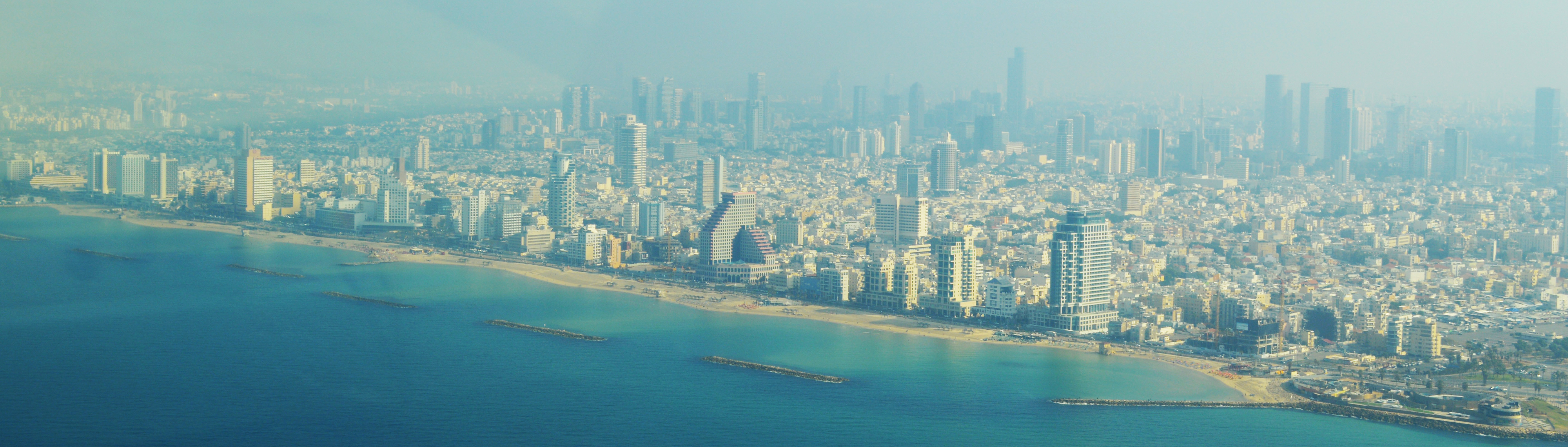 Tel Aviv Promenade Aerial View